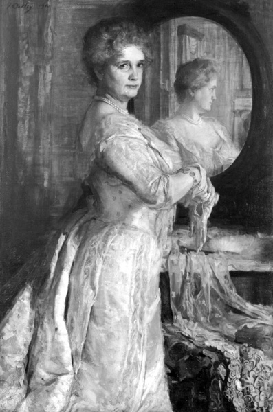 Portrait of Sarah Lawrence